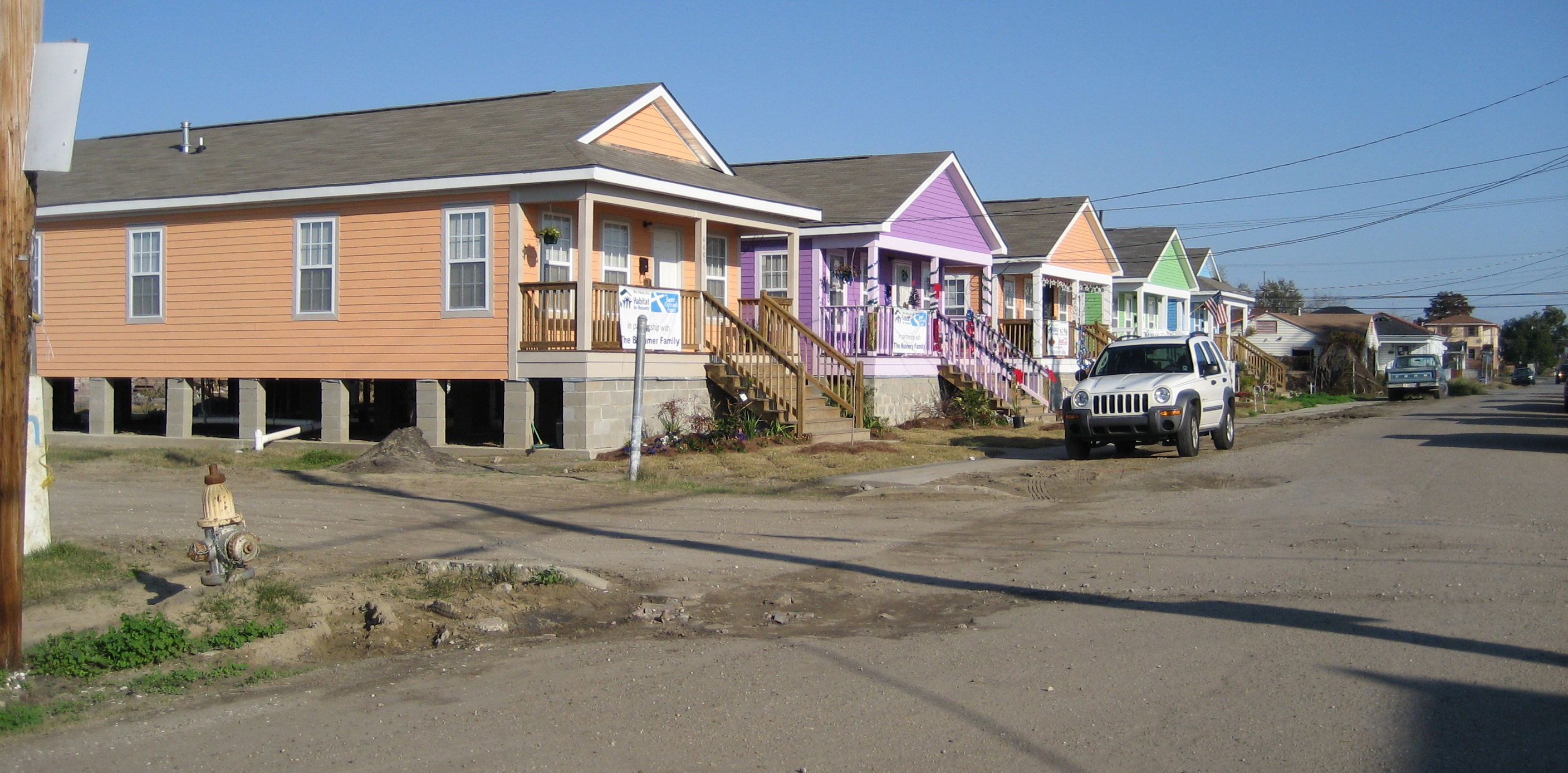 "Musicians' Village" development of post-Hurricane Katrina housing in the Upper 9th Ward of New Orleans